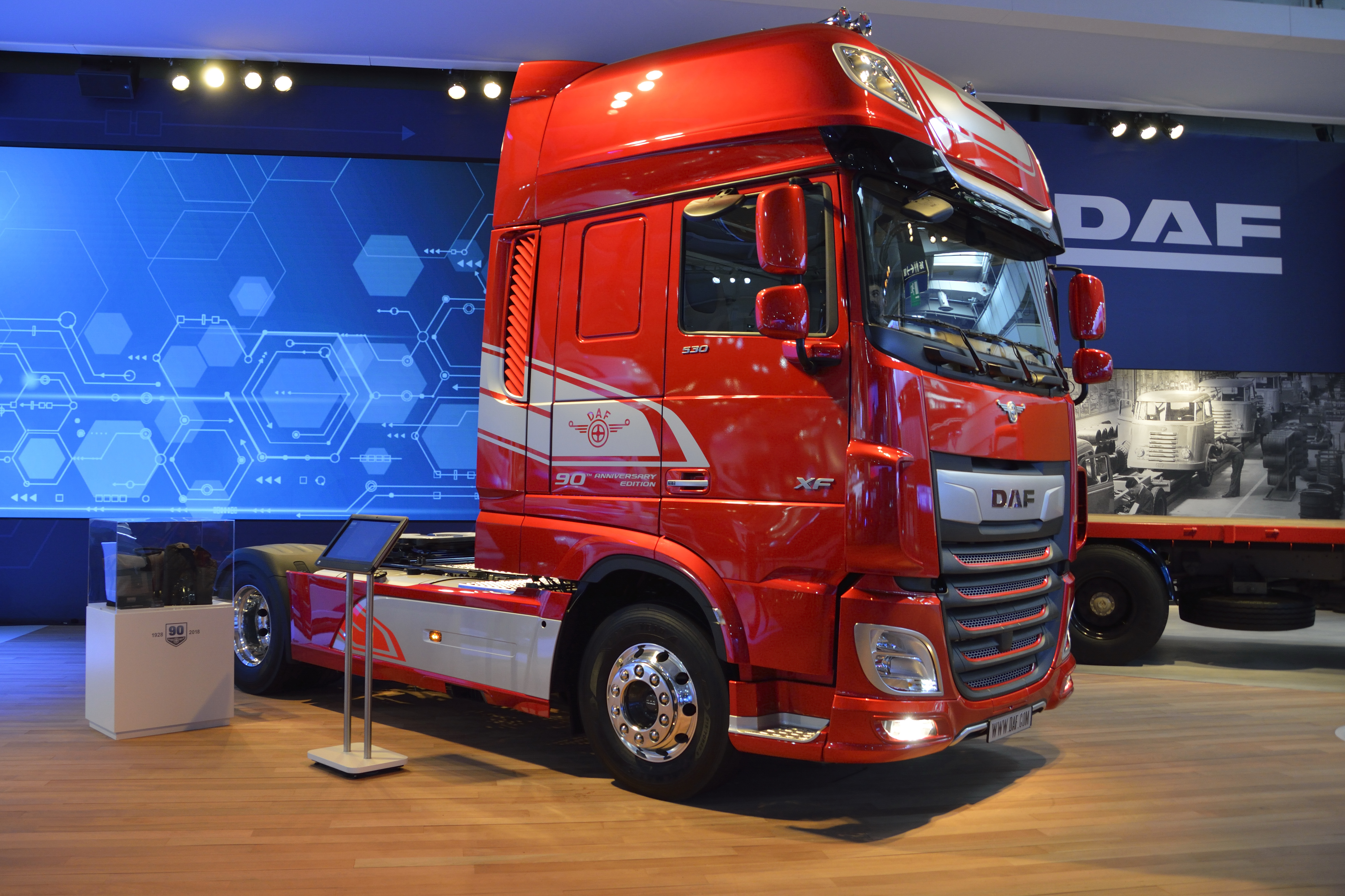 DAF XF 530 FT 4x2 - "90th anniversary". Axle configuration: 4x2 | Cab: Super Space Cab | Wheelbase: 3.800 | Engine type: PACCAR MX-13. Photo taken at IAA 2018. Photo without further processing yet. If you need a raw image format, you may leave a message: here.